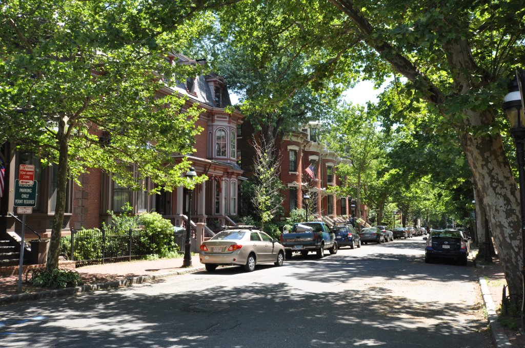 View of Mattoon Street, Springfield, Massachusetts